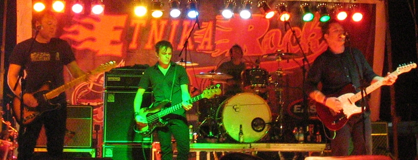 The Get Up Kids performing at Etnika Rock in Ceccano, Italy.